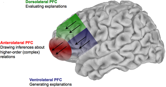 Neural architecture of explanatory inference. Summarizes the functional organization of the lateral PFC.